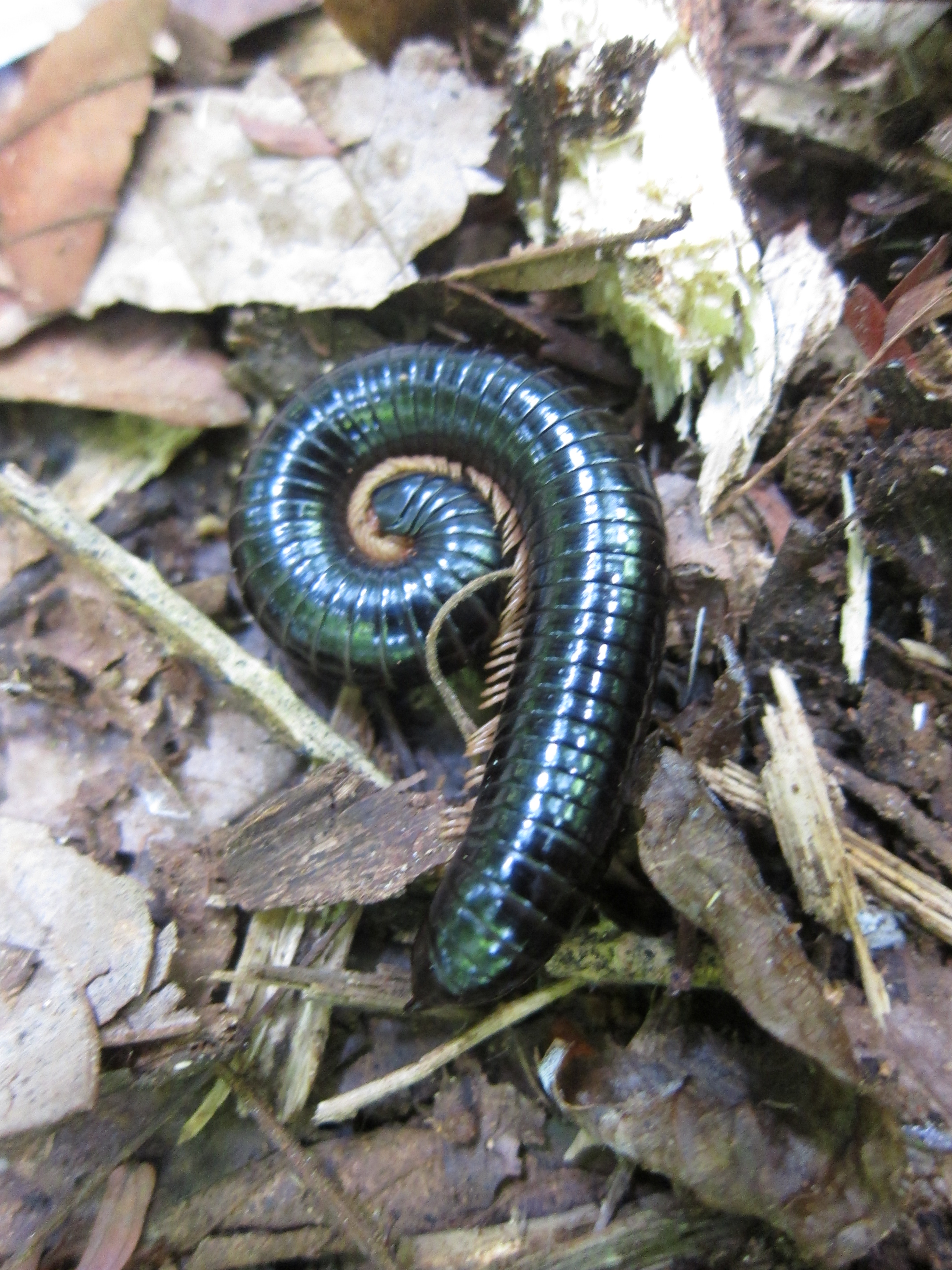 Millipede